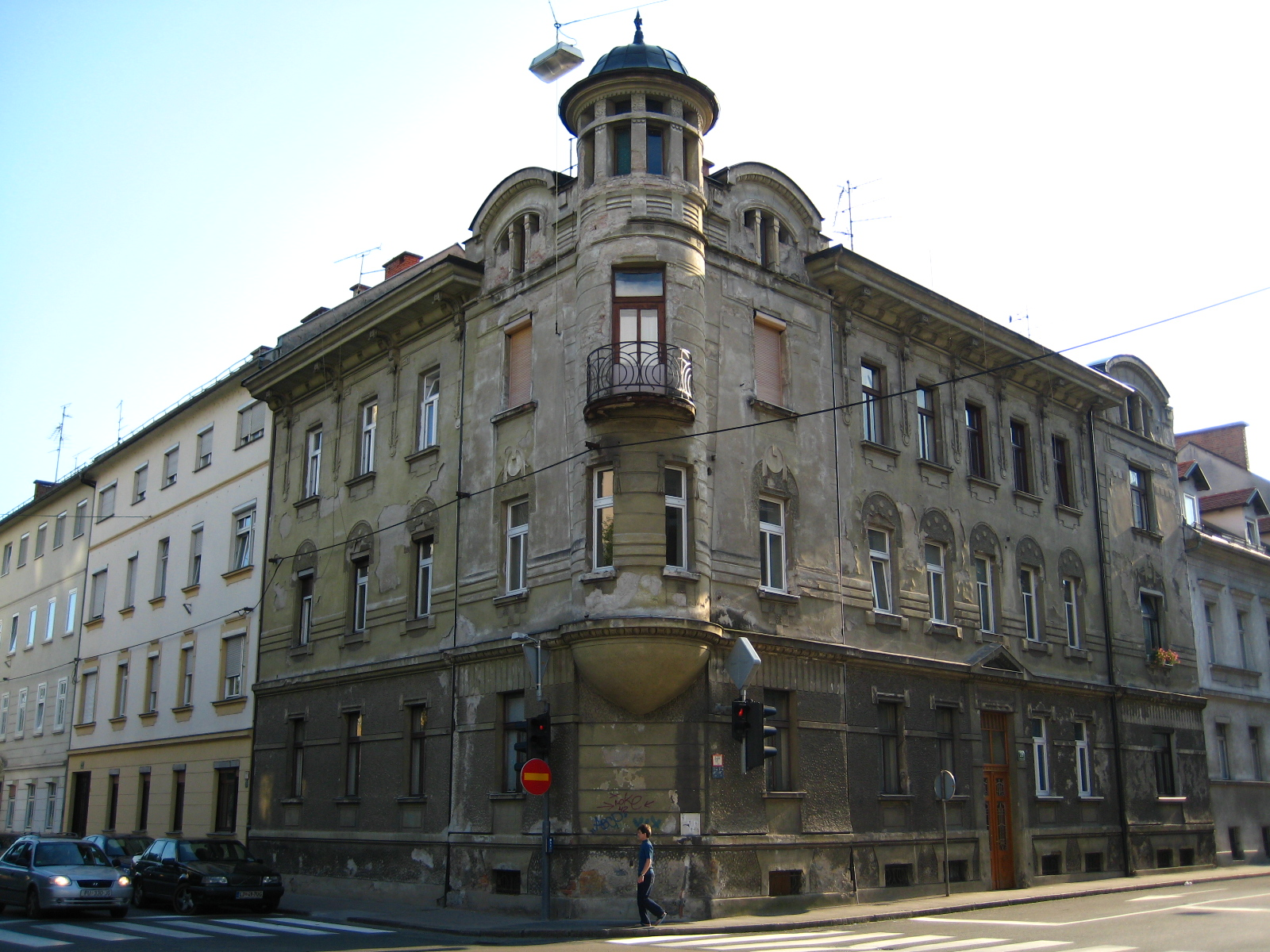 28 Illyrian Street, Ljubljana. Apartment house, built in 1906-07.